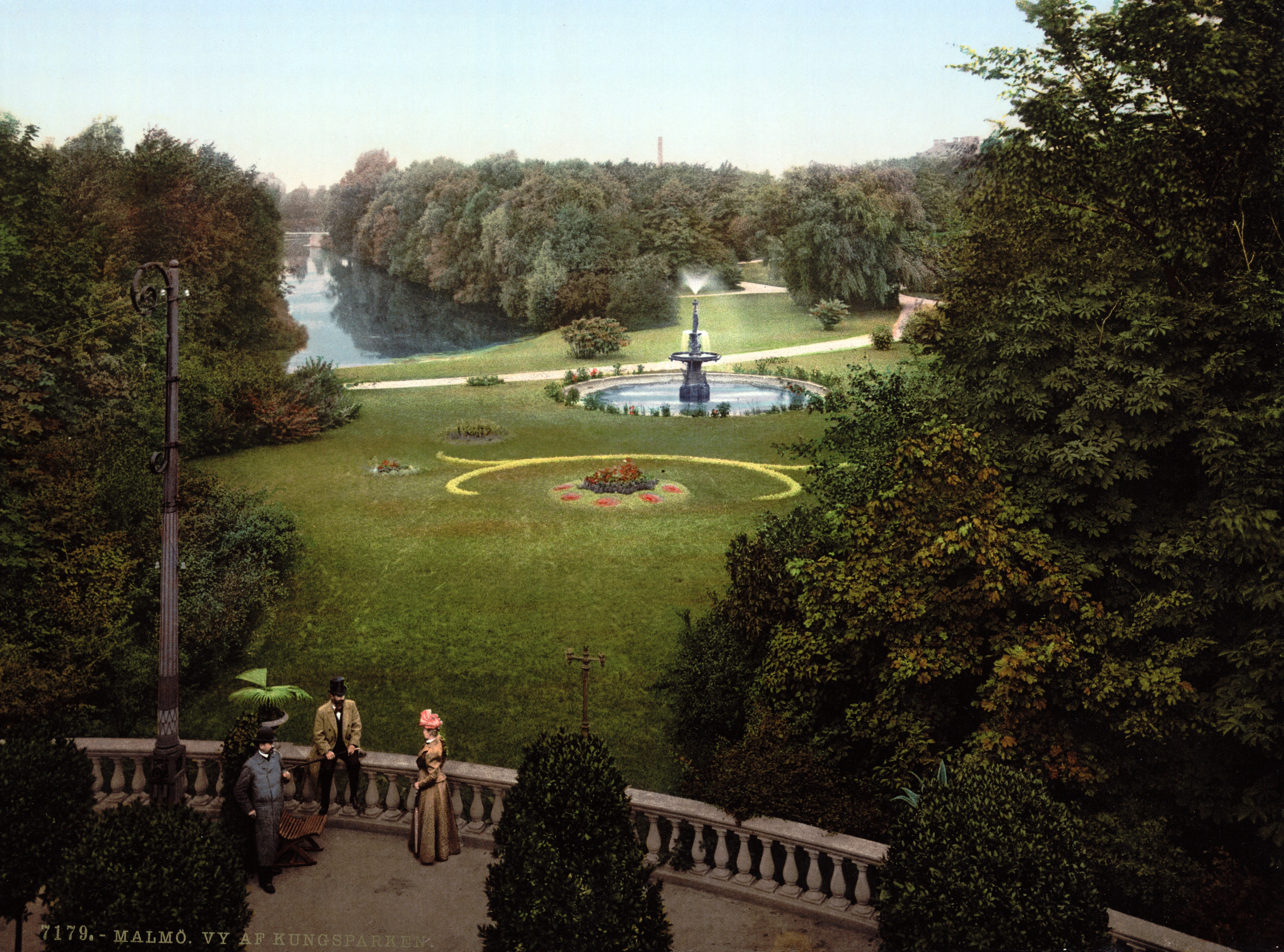 Malmö. Vy af Kungsparken. / ca. 1890-1900 / Lizenz: Public Domain / Quelle: Library of Congress / Bildersuchmaske der Library of Congress